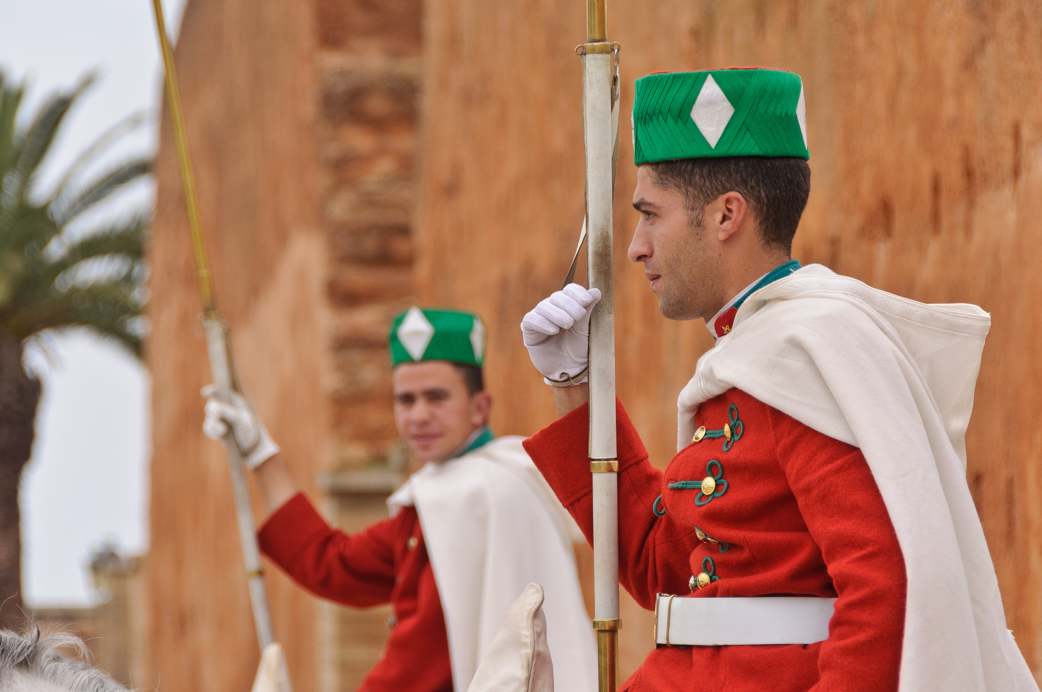 A pair of the Royal Moroccan Guards, formerly known as the Black Guards, at the Mausoleum of Mohammed V in Rabat, Morocco. The Mausoleum of Mohammed V is located on the opposite side of the Hassan Tower on the Yacoub al-Mansour esplanade in Rabat, Morocco. It contains the tombs of the Moroccan king and his two sons, late King Hassan II and Prince Abdallah. The building is considered a masterpiece of modern Alaouite dynasty architecture, with its white silhouette, topped by a typical green tiled roof. Its construction was completed in 1971. Hassan II was buried there following his death in 1999. - Wikipedia